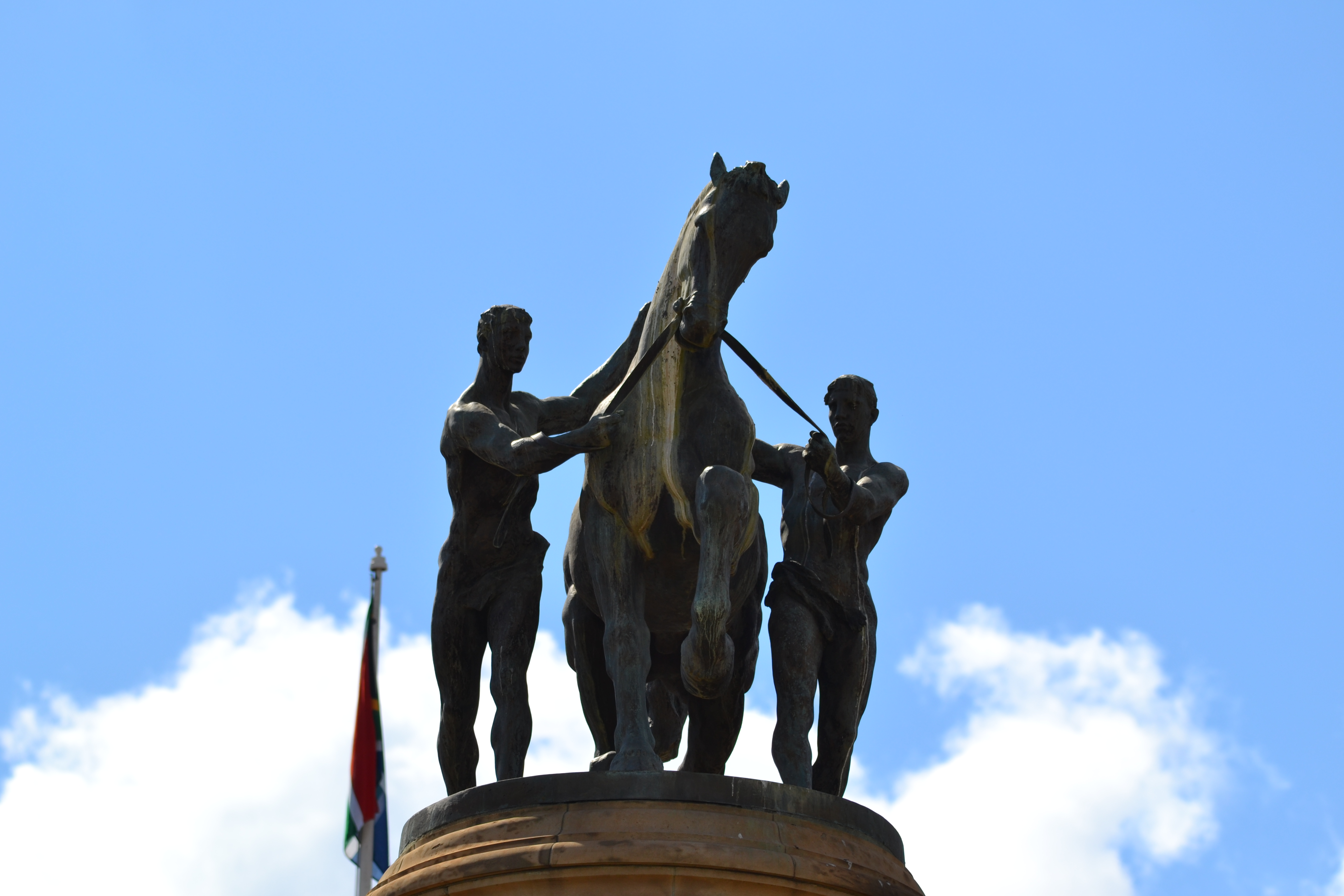 Union Buildings Pretoria This media shows a South African Protected Site with SAHRA file reference 9/2/258/0067.